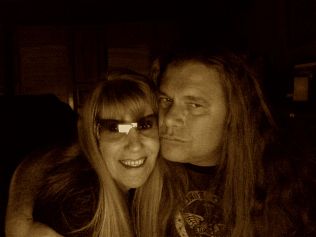 Late night fun